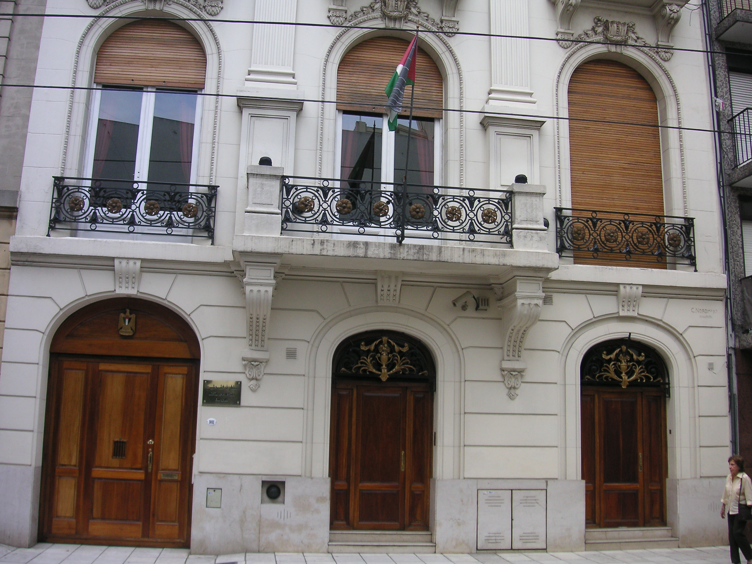 Palestinian embassy in Buenos Aires, Riobamba 981.